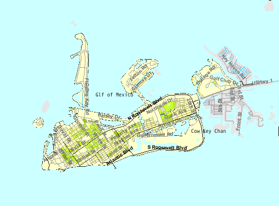 map of Key West, Florida showing boundaries (city limits)